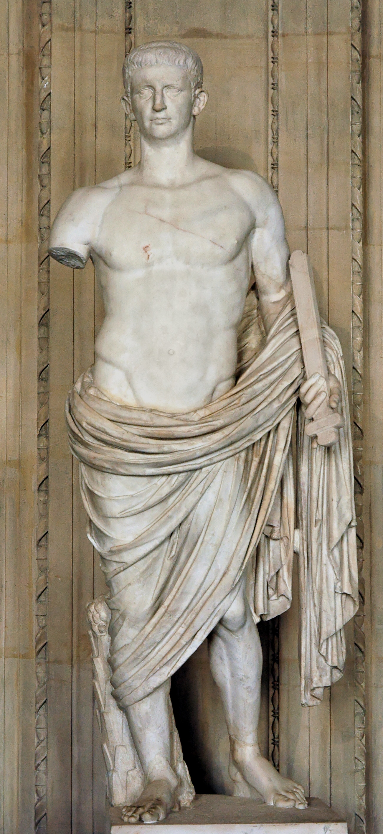 Emperor Claudius (reigned 41–54). Marble, found at Gabii (Pontano) between 1792 and 1795.